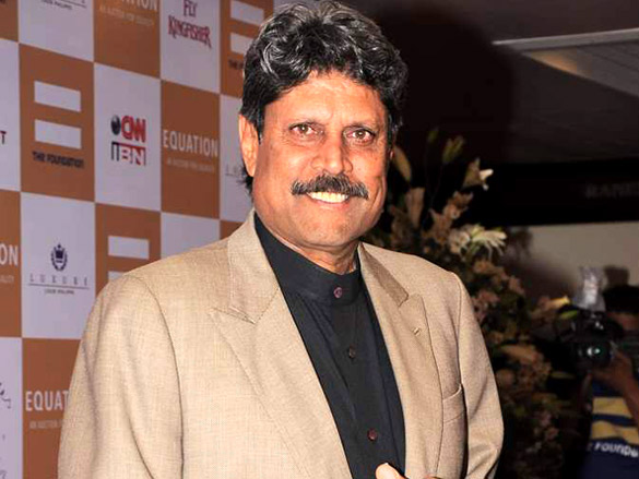 Kapil Dev at Equation sports auction